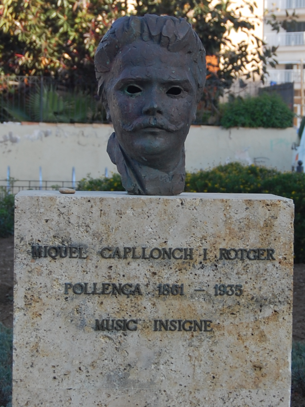 Bronze bust of Miquel Capllonch Rotger in the main square, Port de Pollença, Majorca, 'Placa de Miquel Capllonch', which is named after him. Object location39° 54′ 27.79″ N, 3° 04′ 54.52″ E